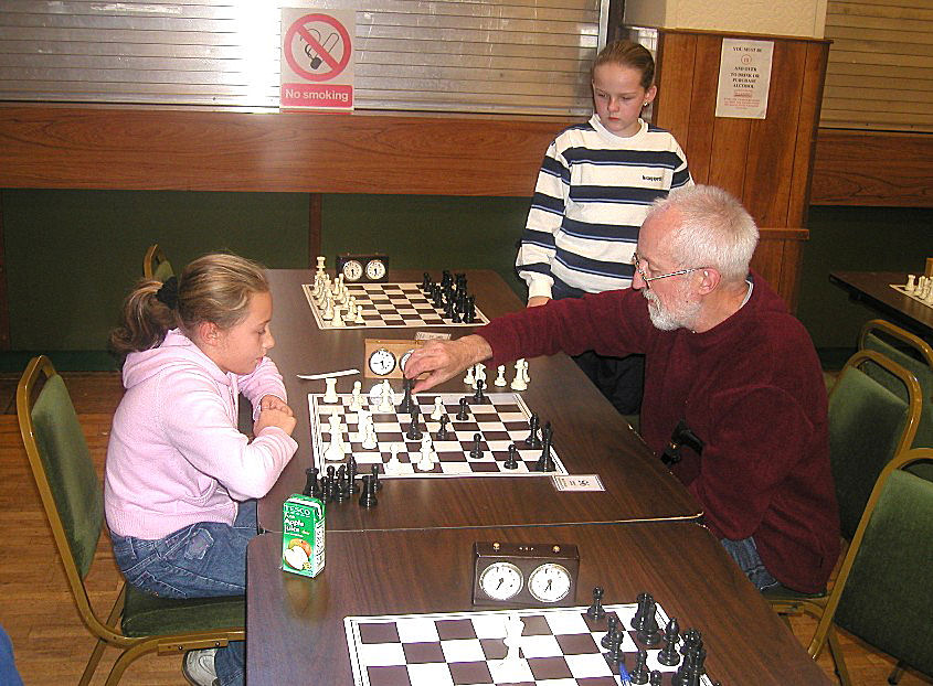 Chess congress, Ormskirk England 2005.